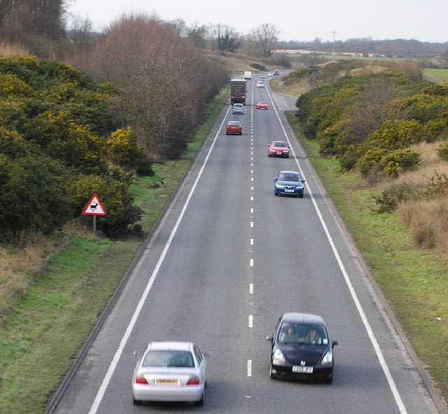 Weeley By-pass (Mk 2) About a kilometre of road was built in the 1930s to bypass Weeley and the level crossing at 124828. That was insufficient and now this road, a 7 km stretch of the A133, has been built to enable traffic to zoom past Weeley, Weeley Heath and Little Clacton on their way to TM1714 Clacton-on-Sea. This view is from Bentley Road looking north west. The land hereabouts is described as "a fertile loamy soil, resting on gravel" . In this cutting the gravel has been exposed and gorse has started to grow on it.